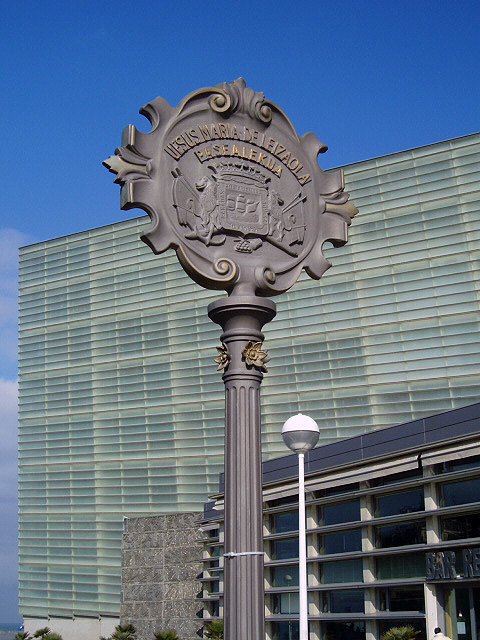 Street sign of Lehendakari Leizaola walk of Donostia-San Sebastian.